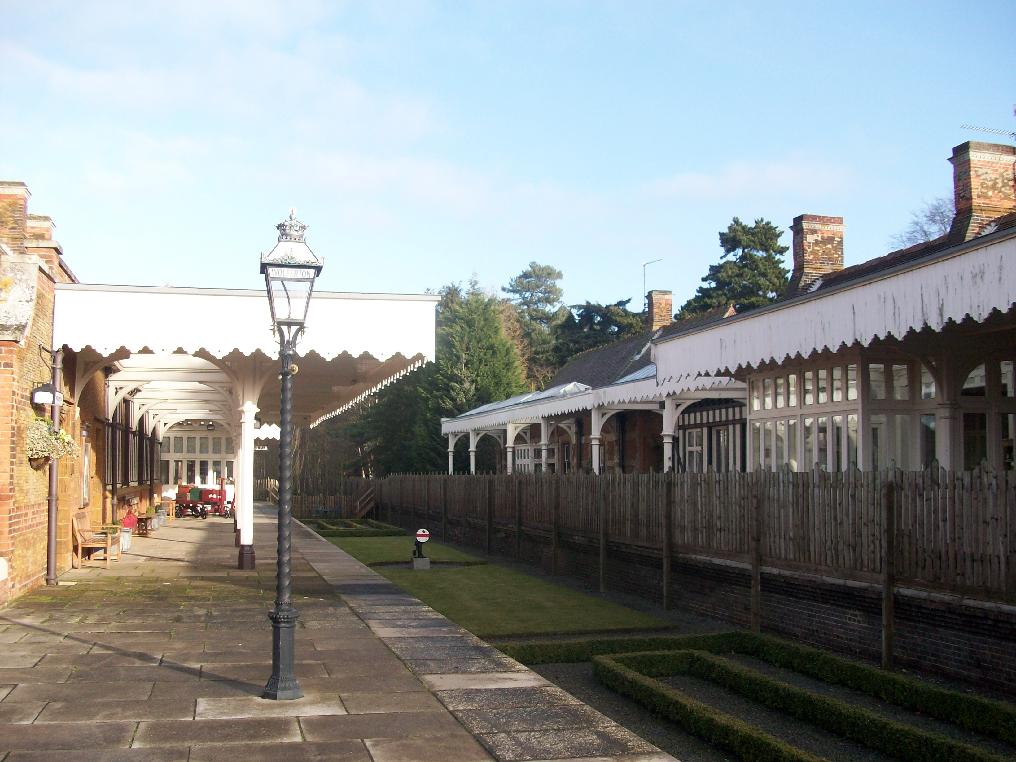 Wolferton Station photographed 17th January 2010.